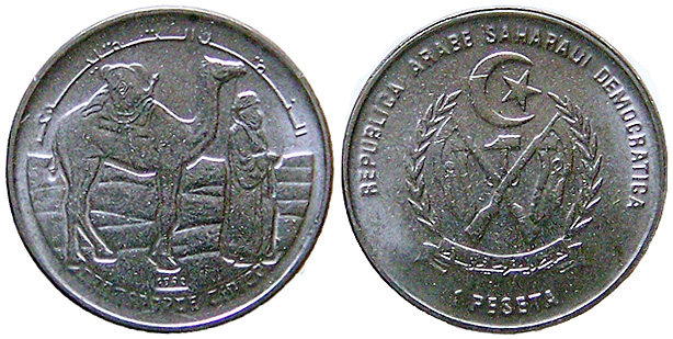 1 Sahara Peseta 1992